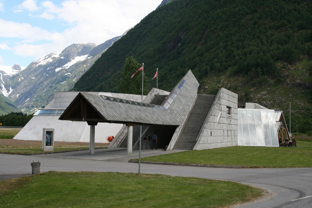 Bremuseum, NO-6848 Fjærland